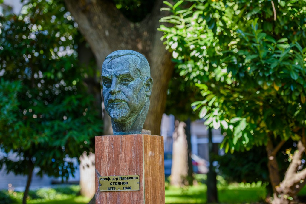 The monument of Prof. Dr. Paraskev Stoyanov in the yard of the Medical University of Varna